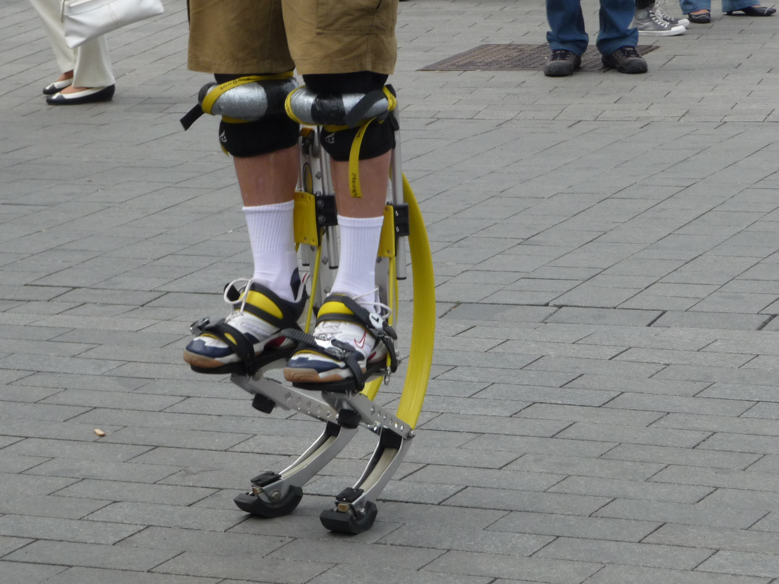 Poweriser exhibition, Brno runs 2010, Liberty Square, Brno -10 -5 -3 -2 ◄ ► +2 +3 +5 +10